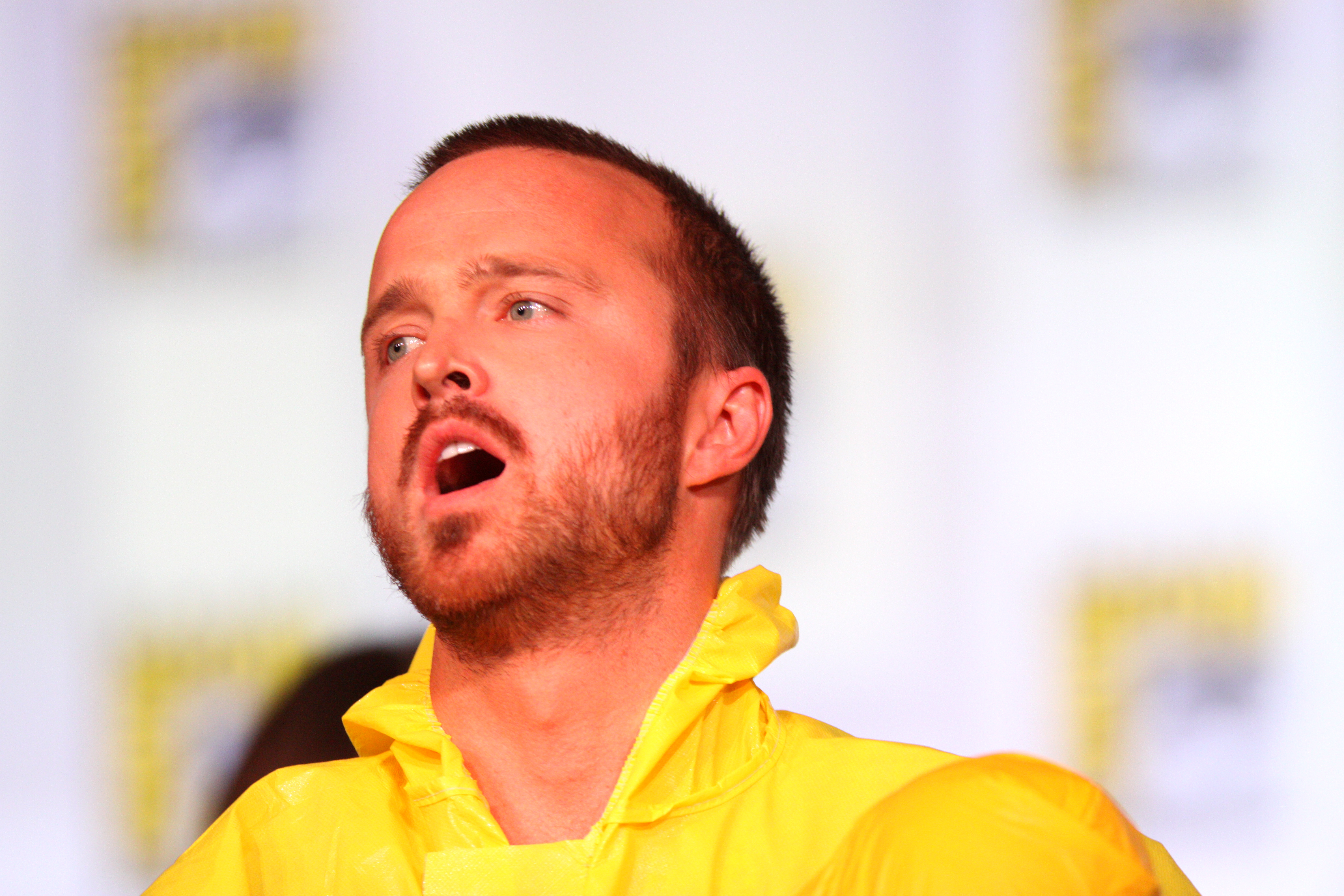 Aaron Paul speaking at the 2012 San Diego Comic-Con International in San Diego, California.